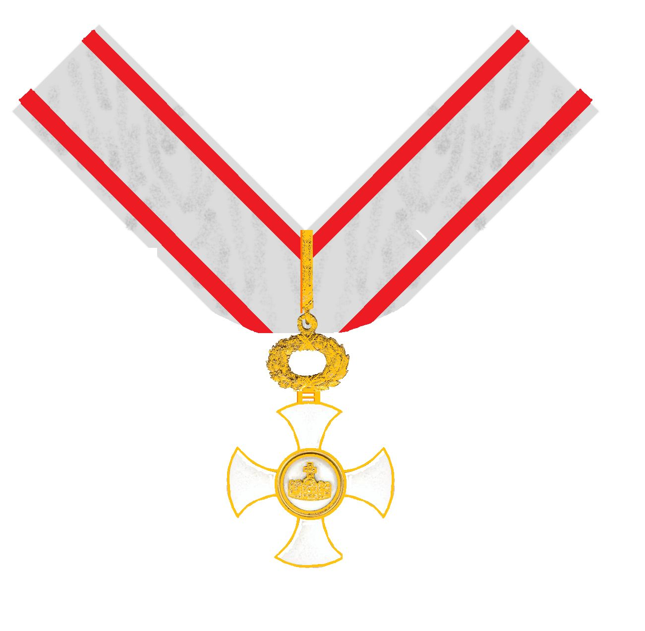 Order of the Crown of Charlemagne